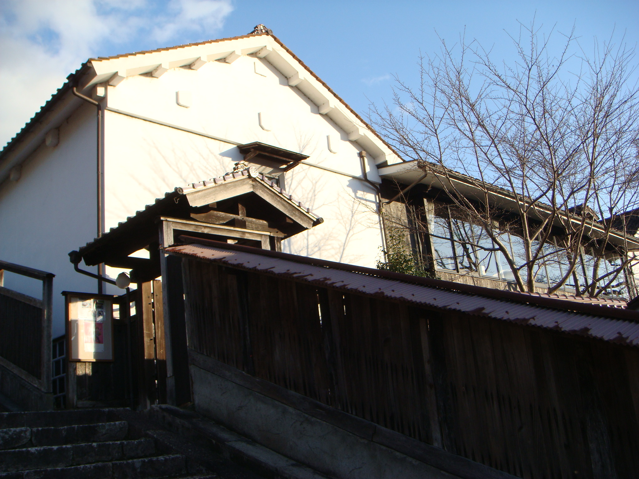 HISHIO – Centre for Cultural Exchange